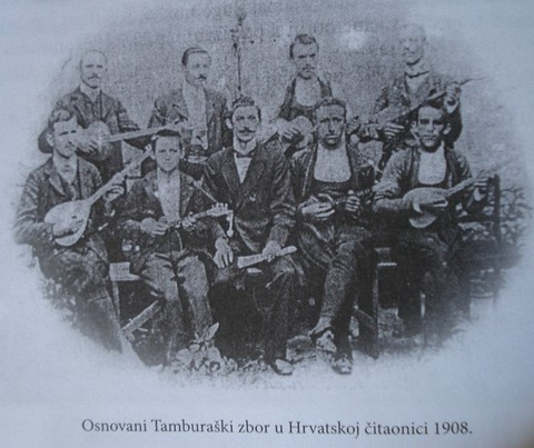 Tamburitza orchestra in the Croatian reading room in 1908 in Bugojno, Bosnia and Herzegovina